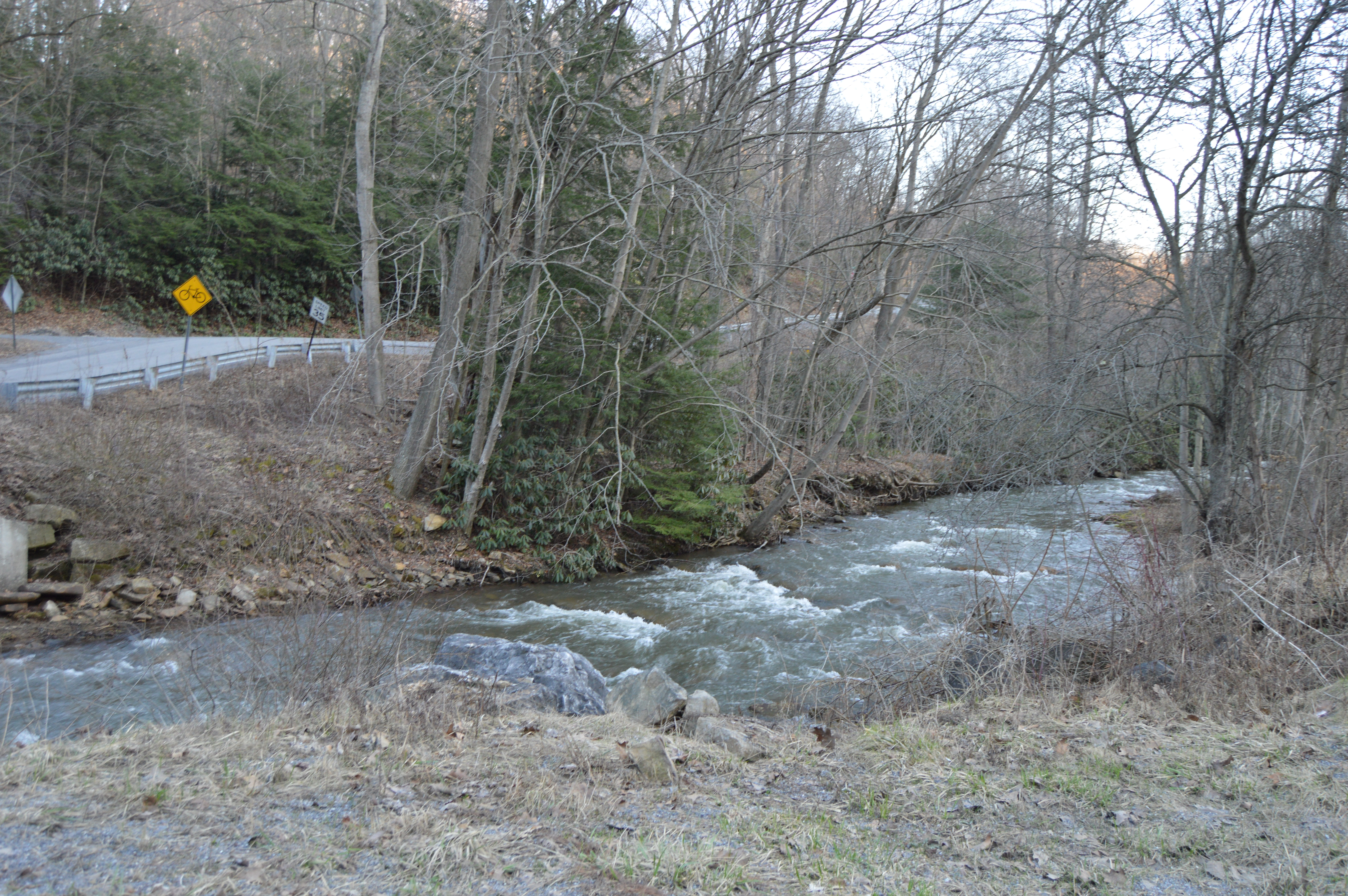 Looking south (upstream) along Kratzler Run from Pennsylvania Route 879 west of Curwensville in Pike Township, Clearfield County, Pennsylvania, United States. Rustic Road is visible at left.